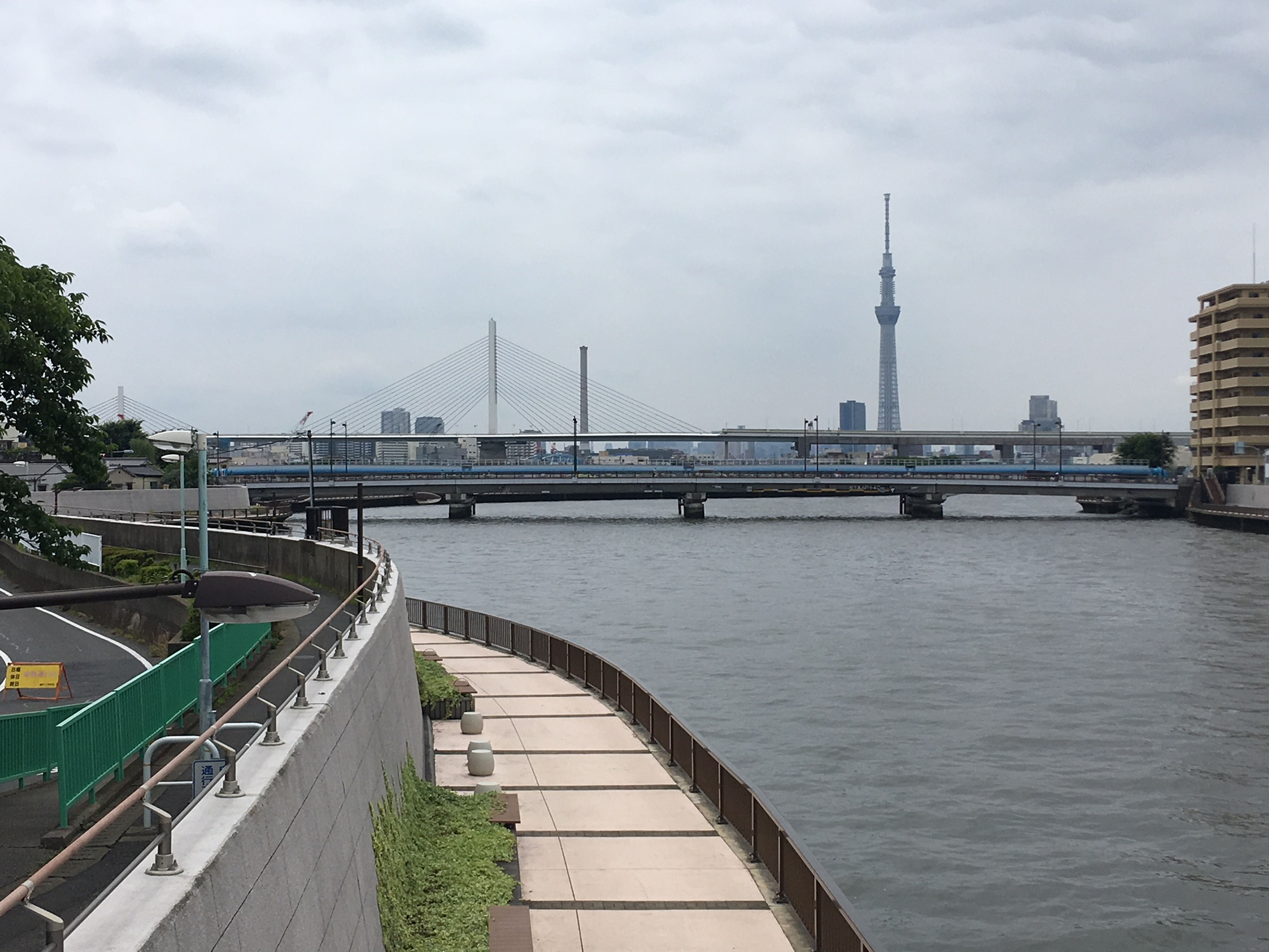 Appearance of Heiwabashi, Katsushika,Tokyo,Japan. The bridge Cable stayed bridge is another bridge, Katsushika-harp bridge."